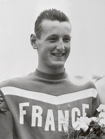 LF57 1952 Wire Photo JEAN BOITEUX FORD KONNO PER OLAF OSTRAND Olympic Medals